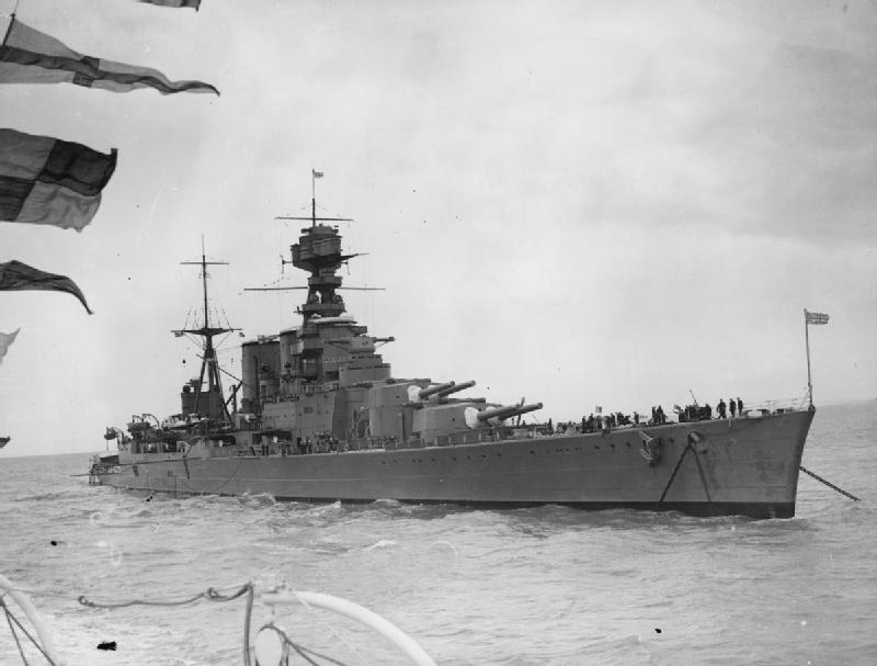 HMS Hood HMS HOOD at anchor, circa 1940.